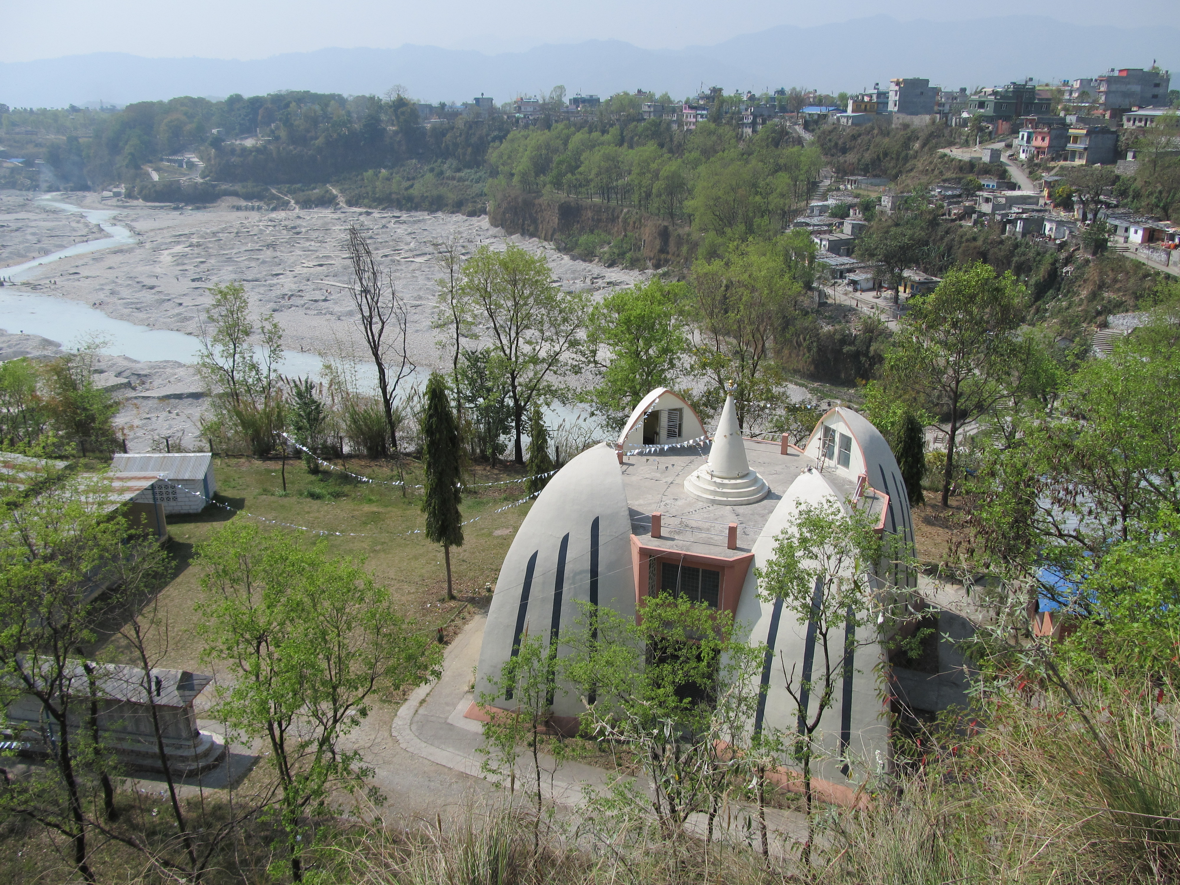 Background: Seti Gandaki gorge